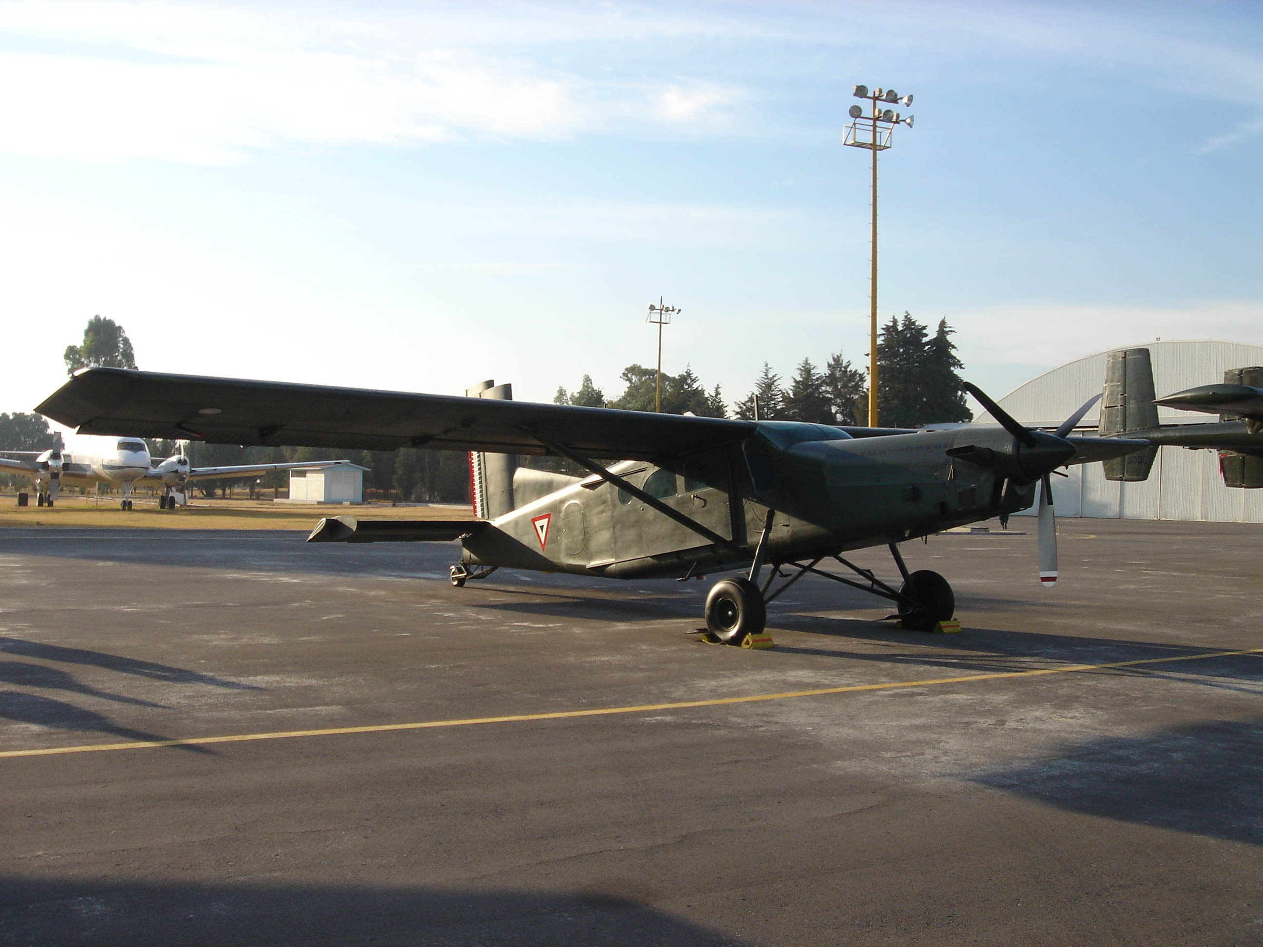 Pilatus PC-6 Porter in Santa Lucia AFB.